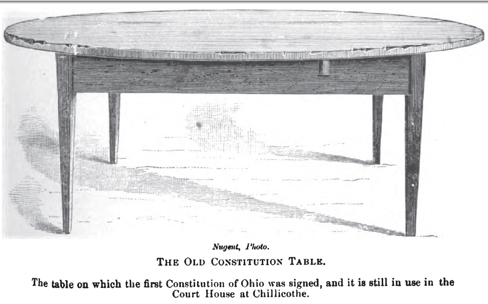 the table used at the 1802 Ohio Constitutional Convention